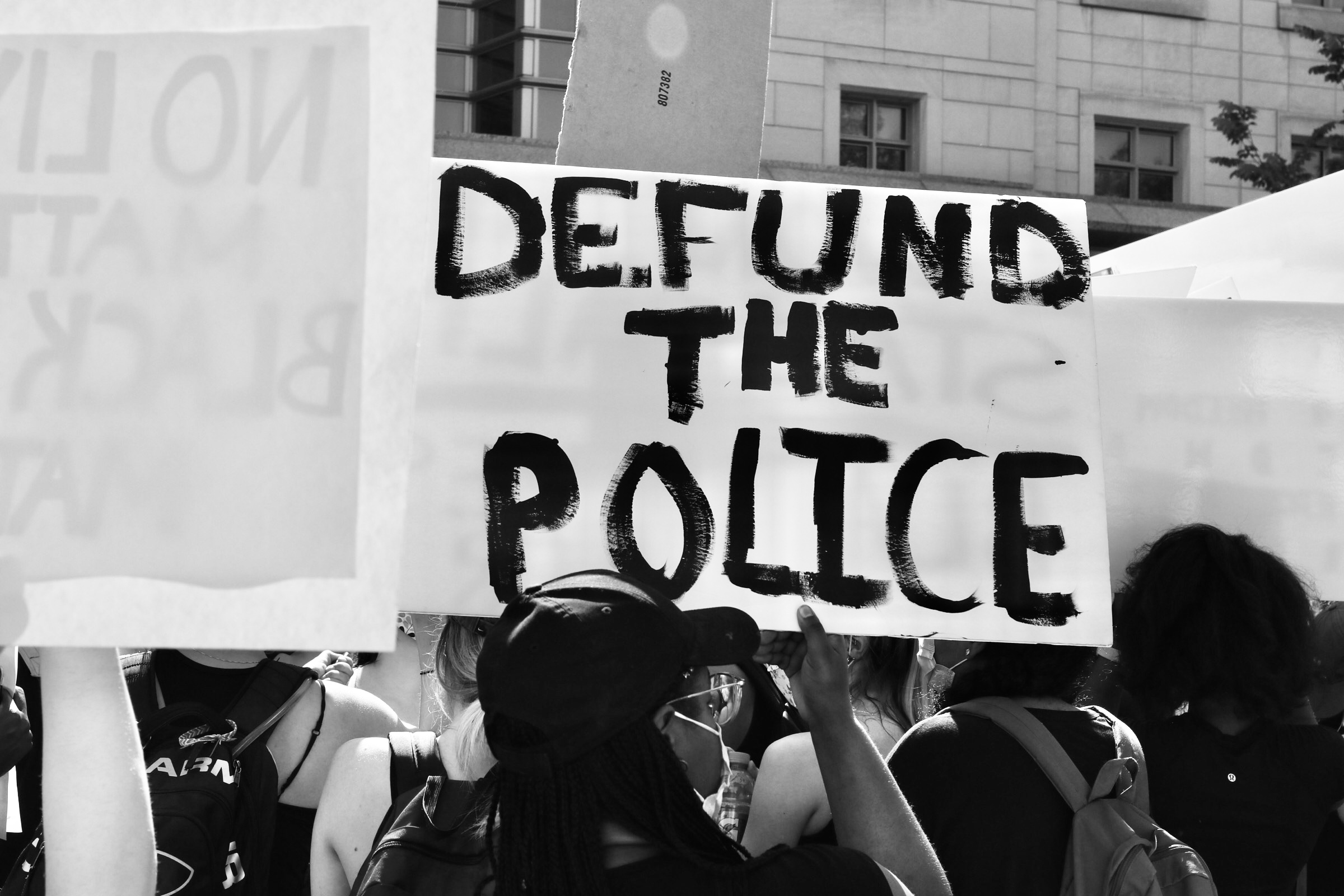 Demonstrator at a George Floyd protest holding up a Defund the Police sign on June 5 2020